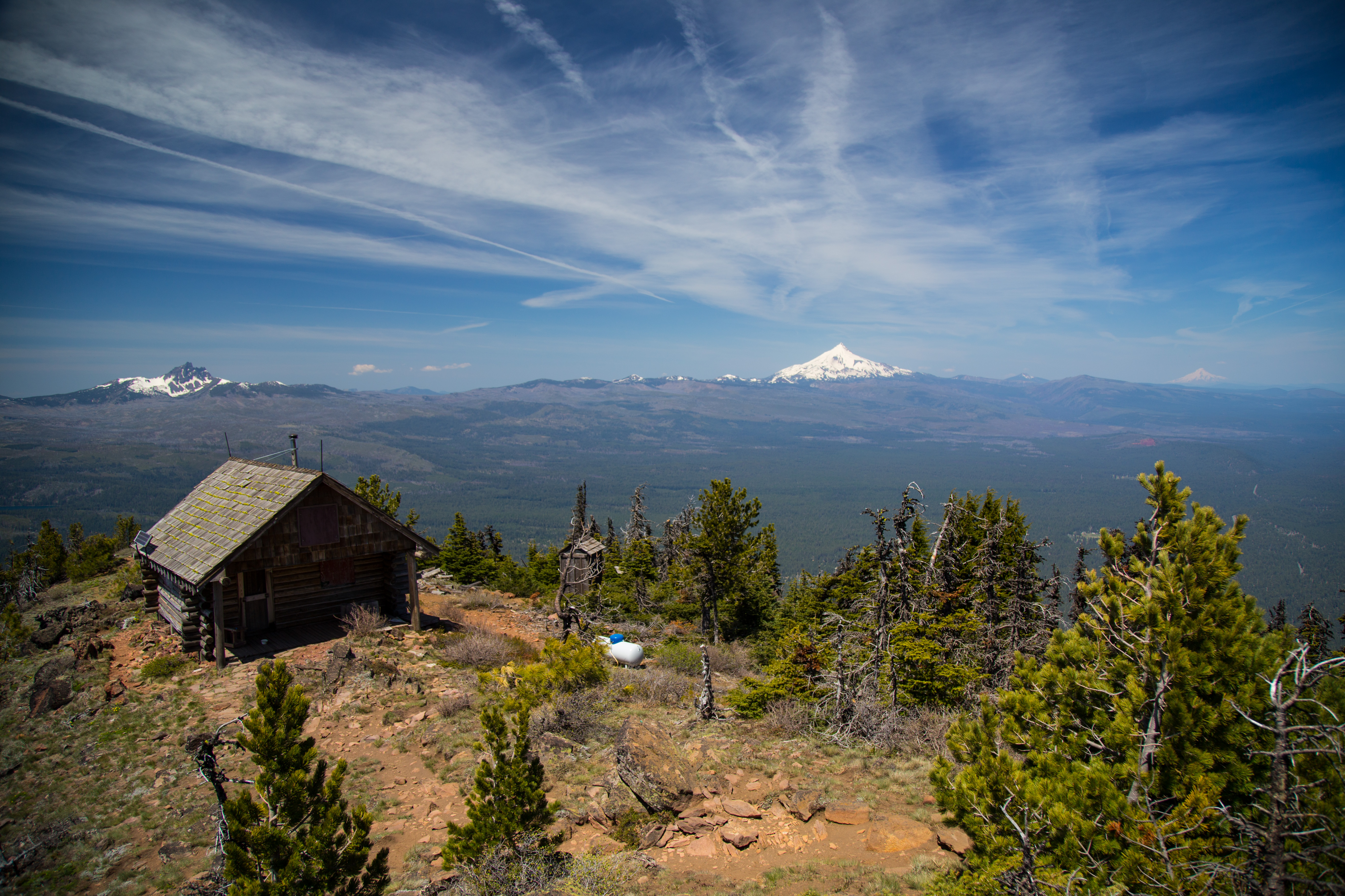 Mount Hood, Mount Jefferson, Three Fingered Jack (right to left), seen from Black Butte (Oregon); in the foreground the staff house of the Black Butte fire lookout